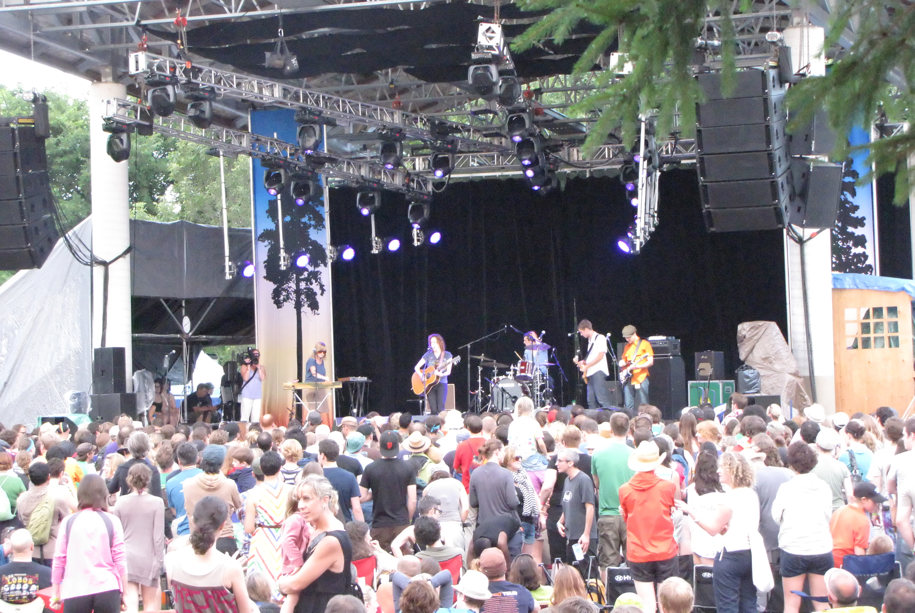 Sarah Harmer performing at the main stage at the Hillside Festival in Guelph